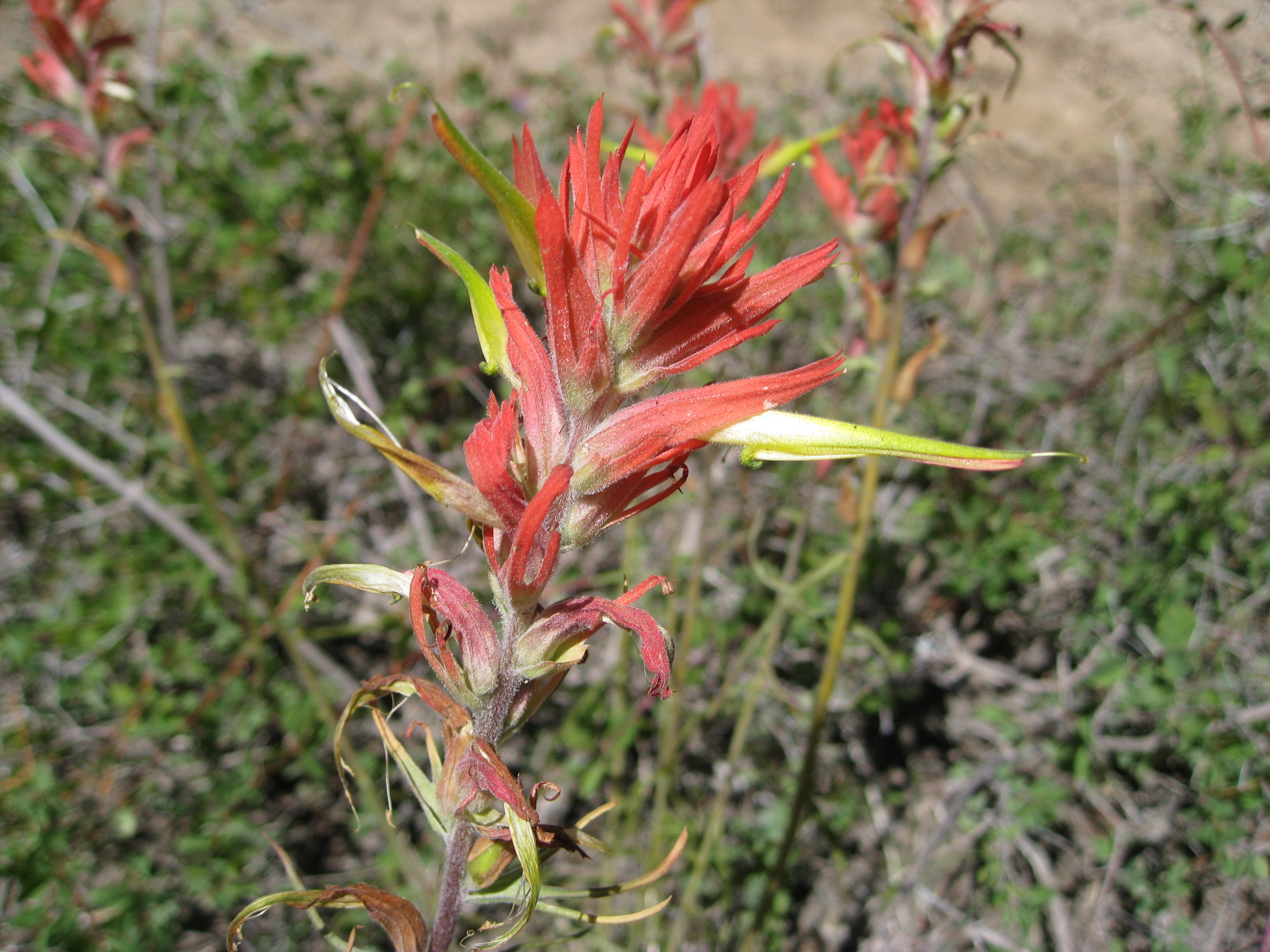 These Castilleja linariifolia were seen at Rainbow Point, Bryce Canyon. i090711 218